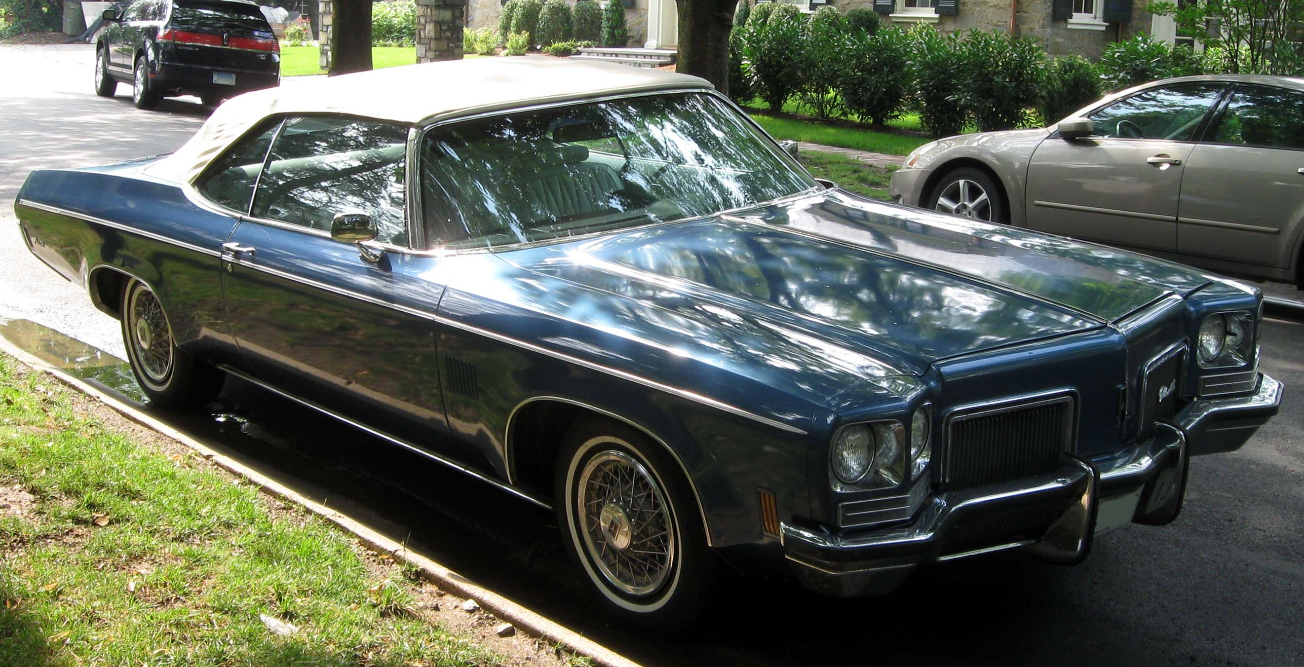 1972 Oldsmobile Delta 88 photographed in Chevy Chase, Maryland, USA.